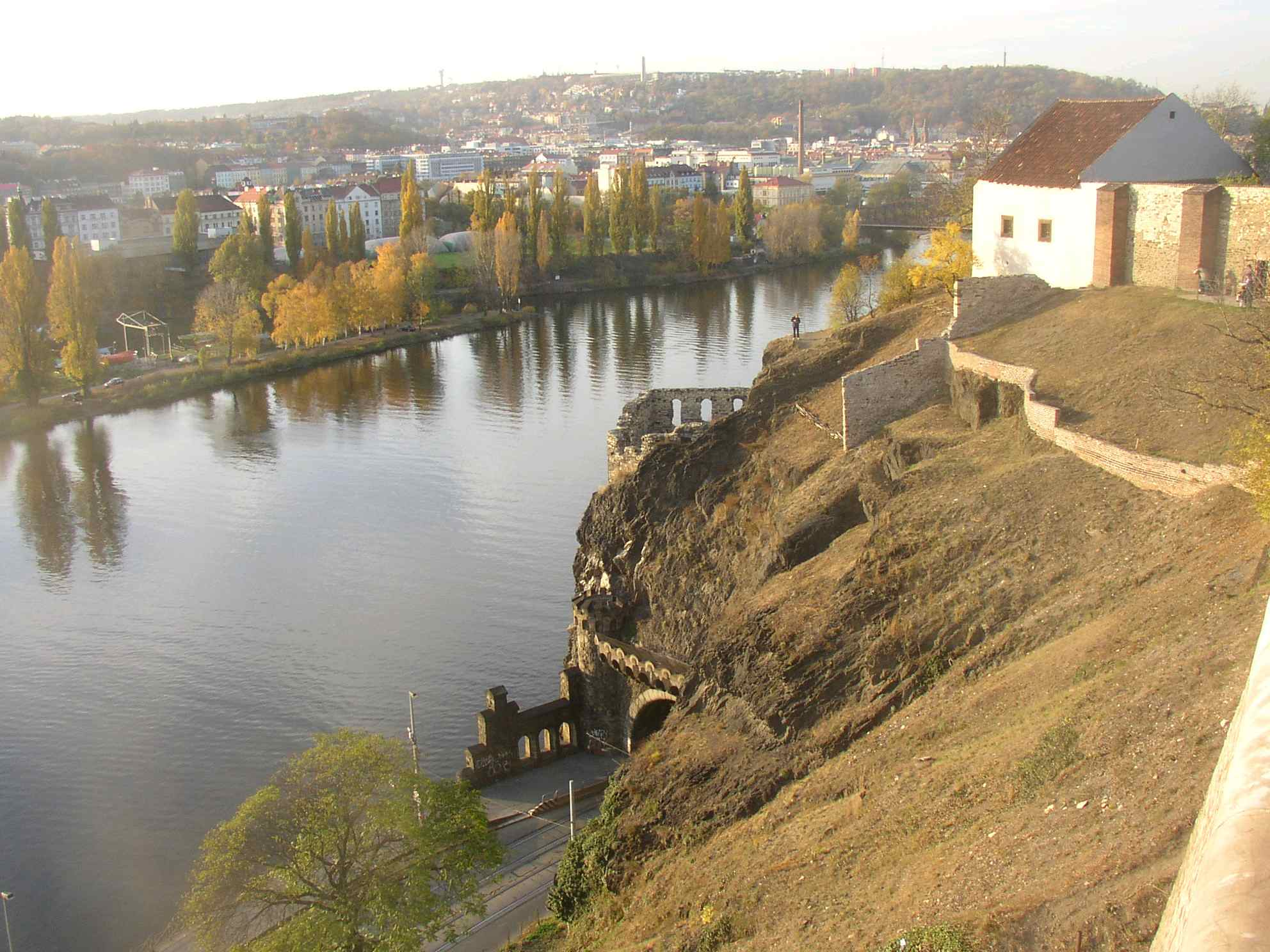 Vyšehrad Rock (vyšehradská skála) above the Vltava River in Prague, Czech Republic So called Libuše's Bath (Libušina lázeň), actually ruin of a 14th century watchtower, is seen above the tunnel. Smíchov district is on the opposite bank of the river.